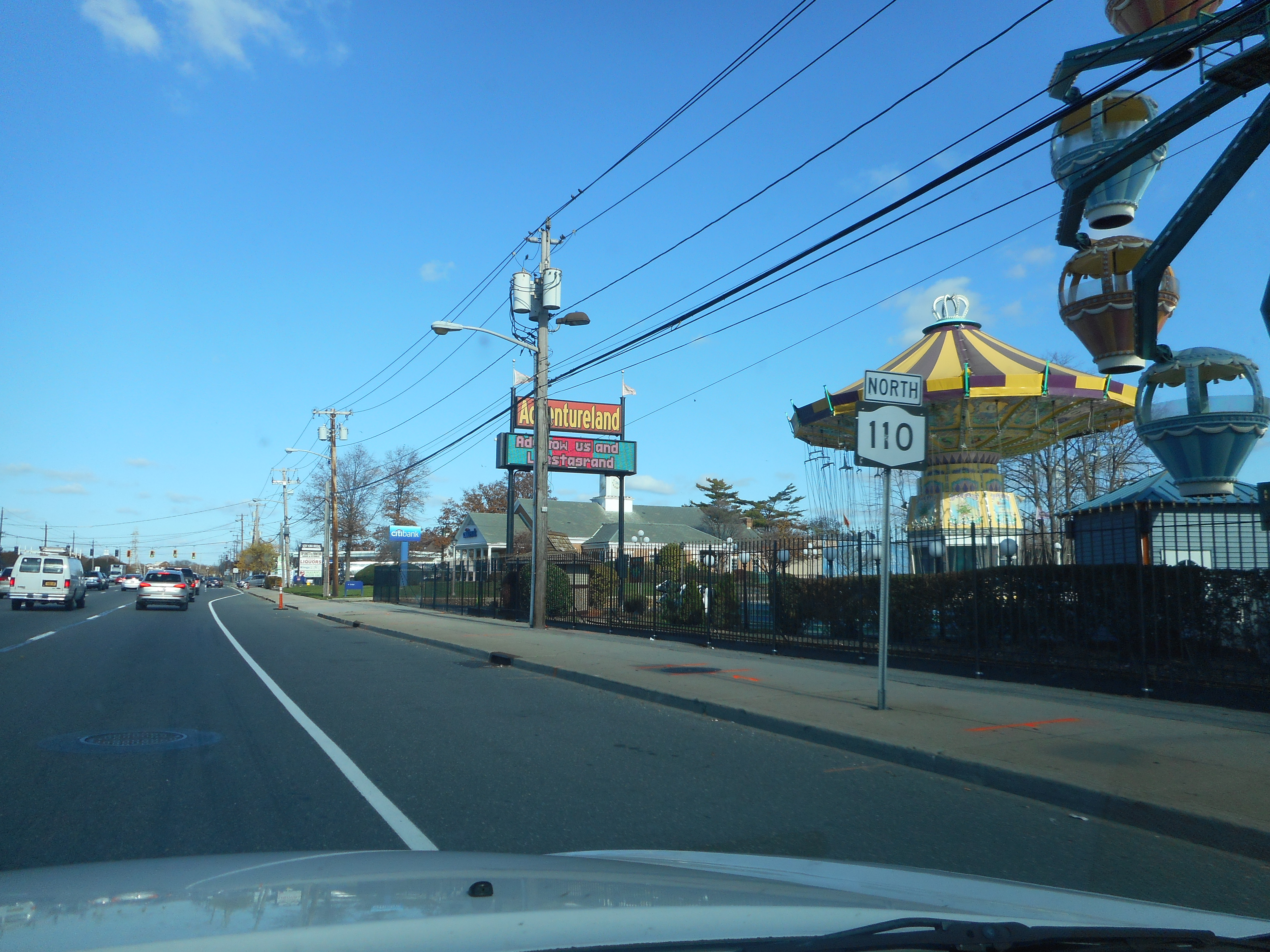 Quick shot of Adventureland from northbound New York State Route 110 in East Farmingdale, New York.